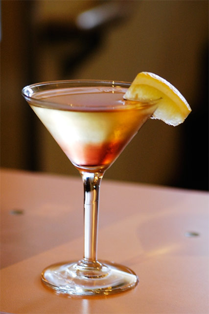 Color Martini: "Maya's drink (at Tokyo Go-Go Sushi in SF). I forgot what it's called, so I just call it a Color Martini. Nikon D100, Tamron 28-75 1:2.8 XR Di, 75mm f2.8 1/15sec. ISO500"